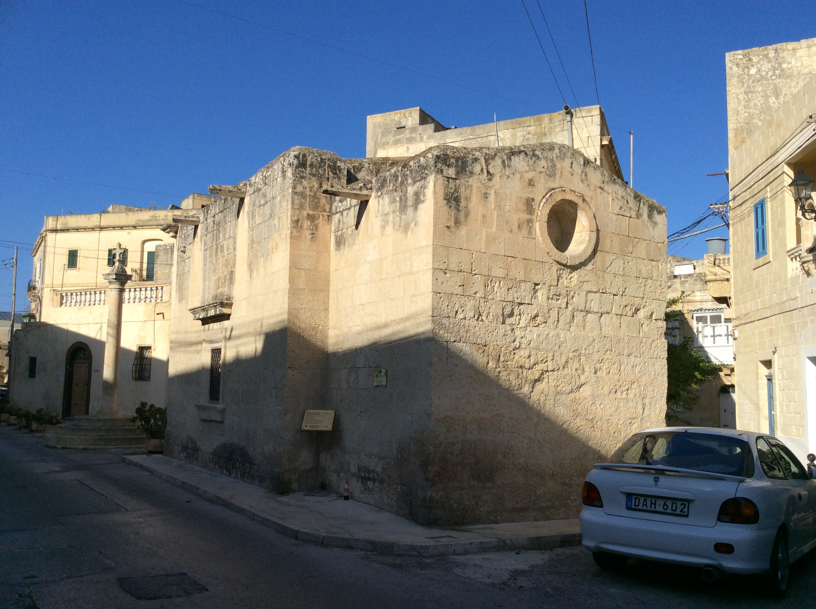 Balzan